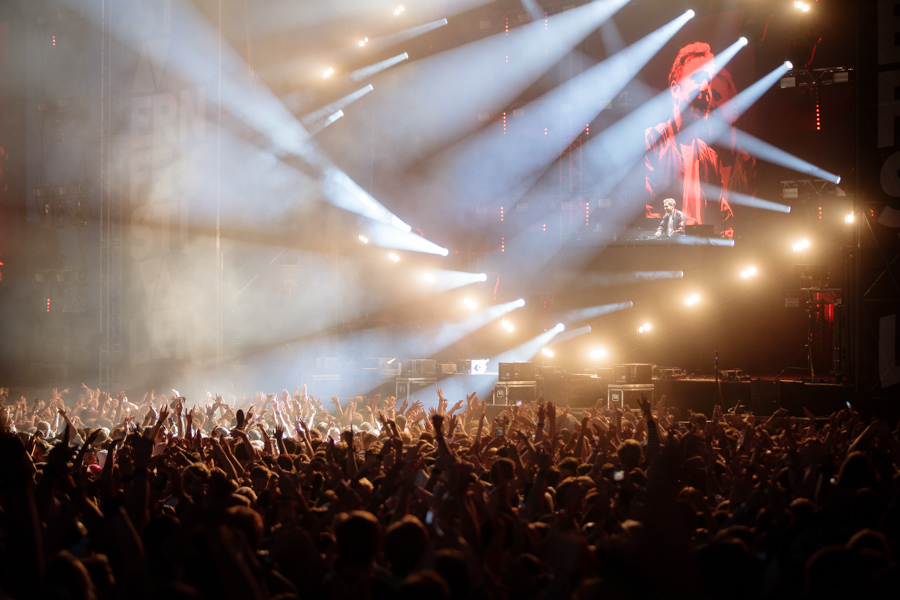 David Guetta at the main stage at Stavernfestivalen. The concert was part of Stavernfestivalen and took place on 13. July 2018 in Stavern. Lineup:David Guetta (disc jockey)